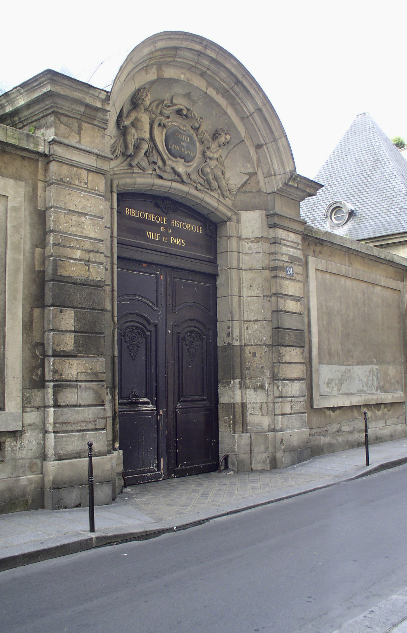 Street entrance of the Bibliothèque Historique de la Ville de Paris, located in the Hôtel d'Angoulême Lamoignon on rue Pavée in Paris' 4th arronidsement.